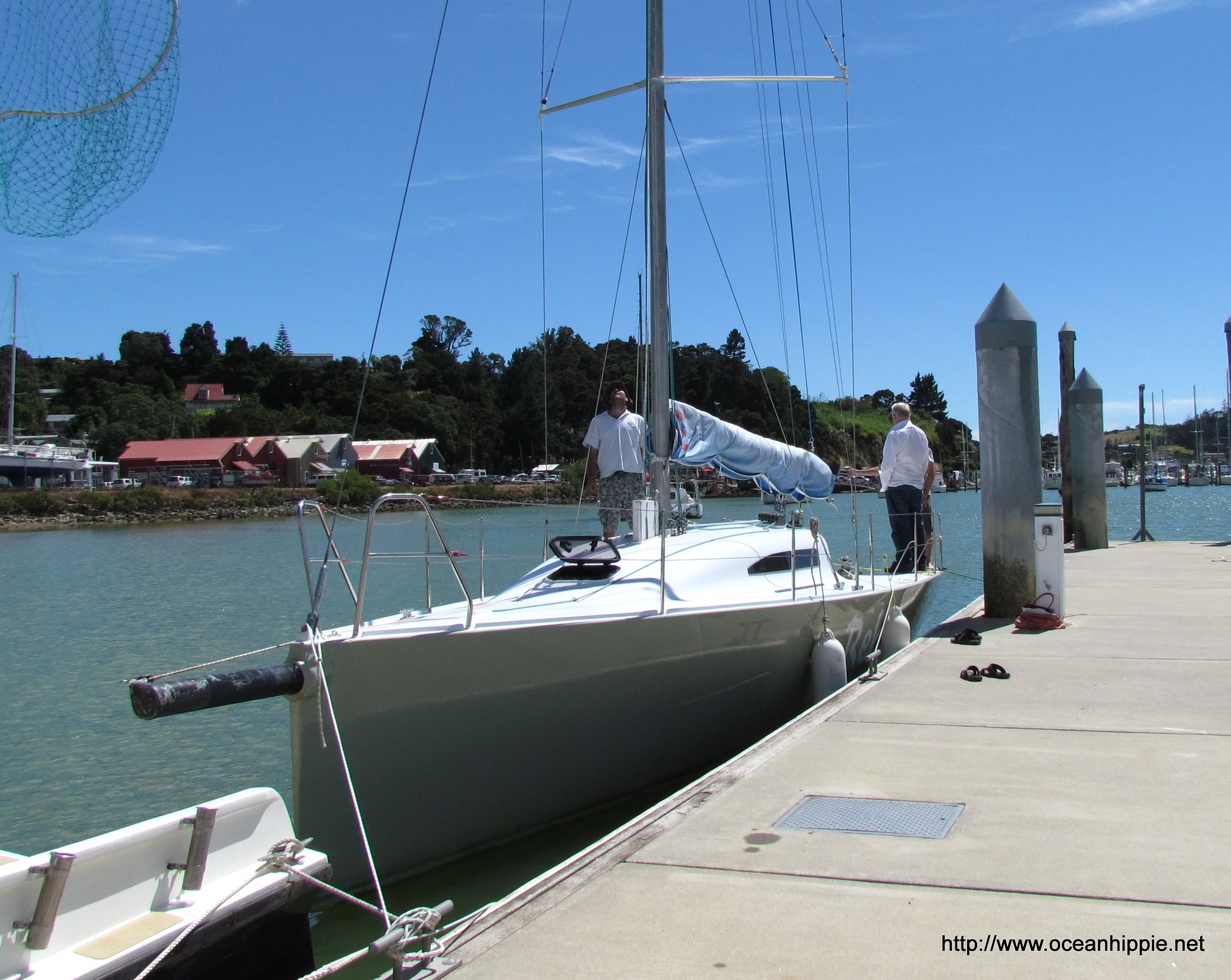 Shaw 10.6 yacht "Rehab", in Opua, New Zealand